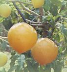 Pouteria caimito